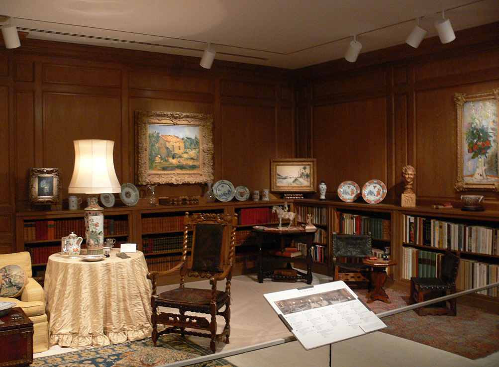 Dallas Museum of Art, Dallas, Texas; The Wendy and Emery Reves Collection